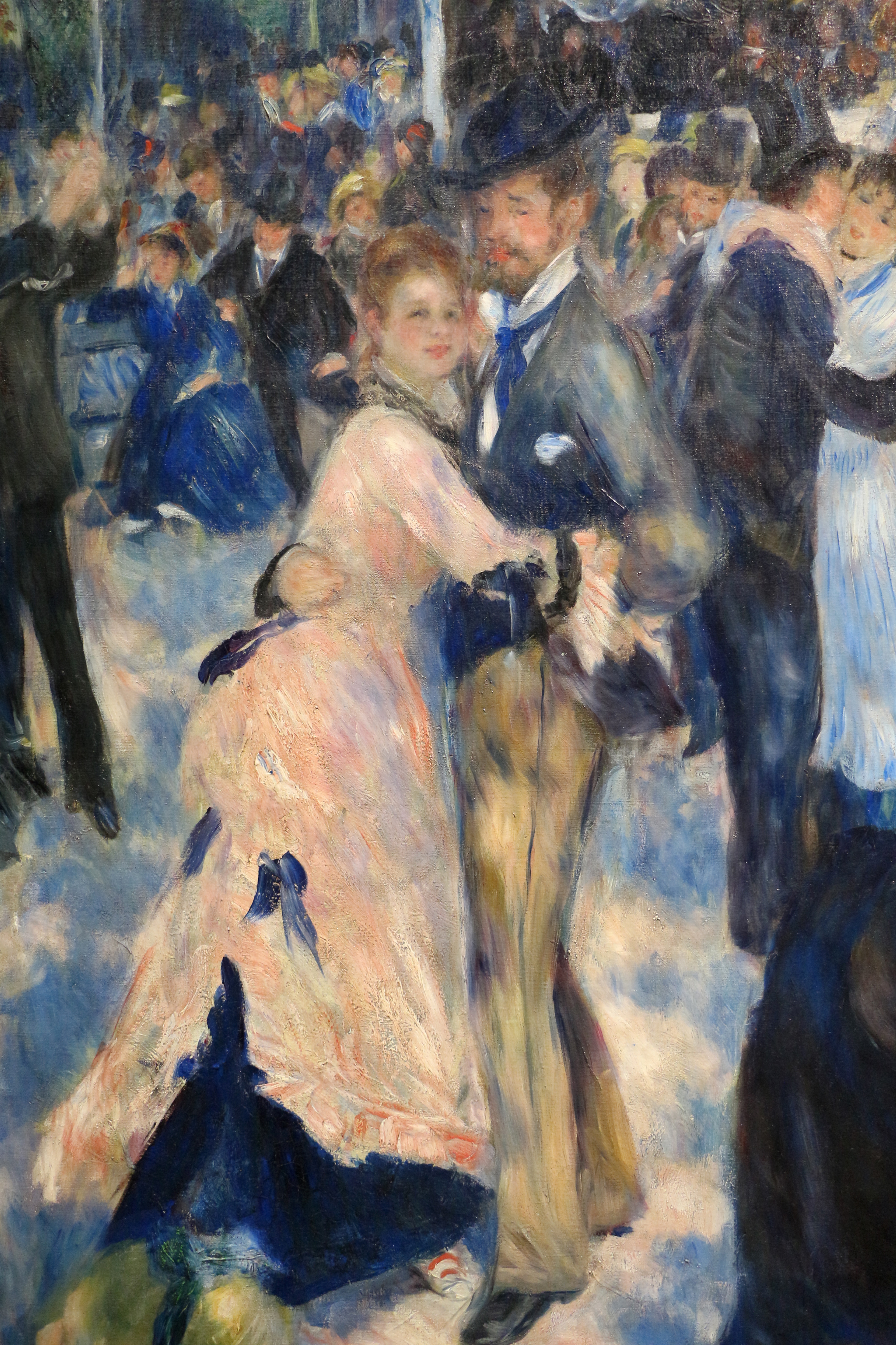 Bal du moulin de la Galette by Renoir